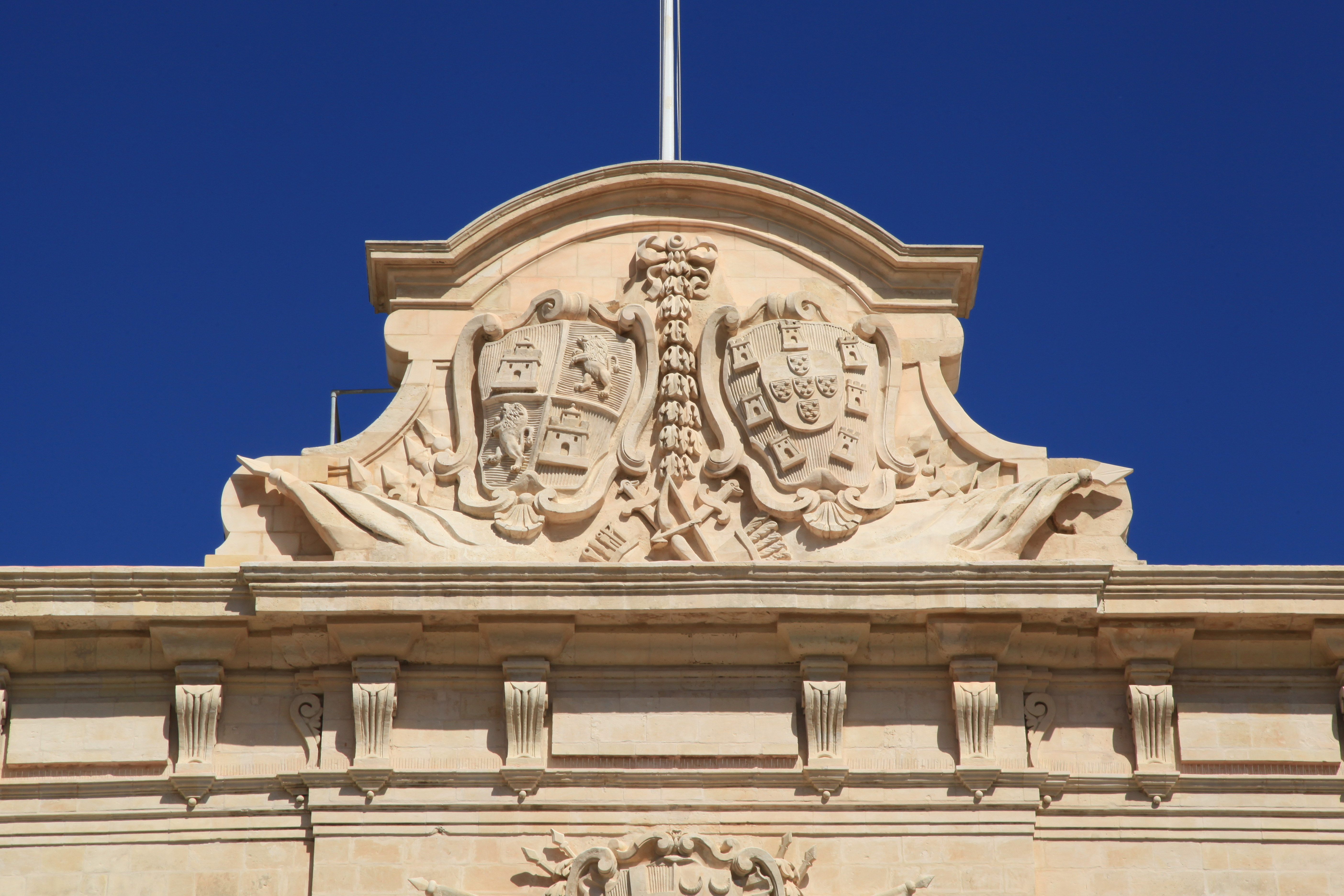 Auberge de Castille at Pjazza Kastilja in Valletta, Malta